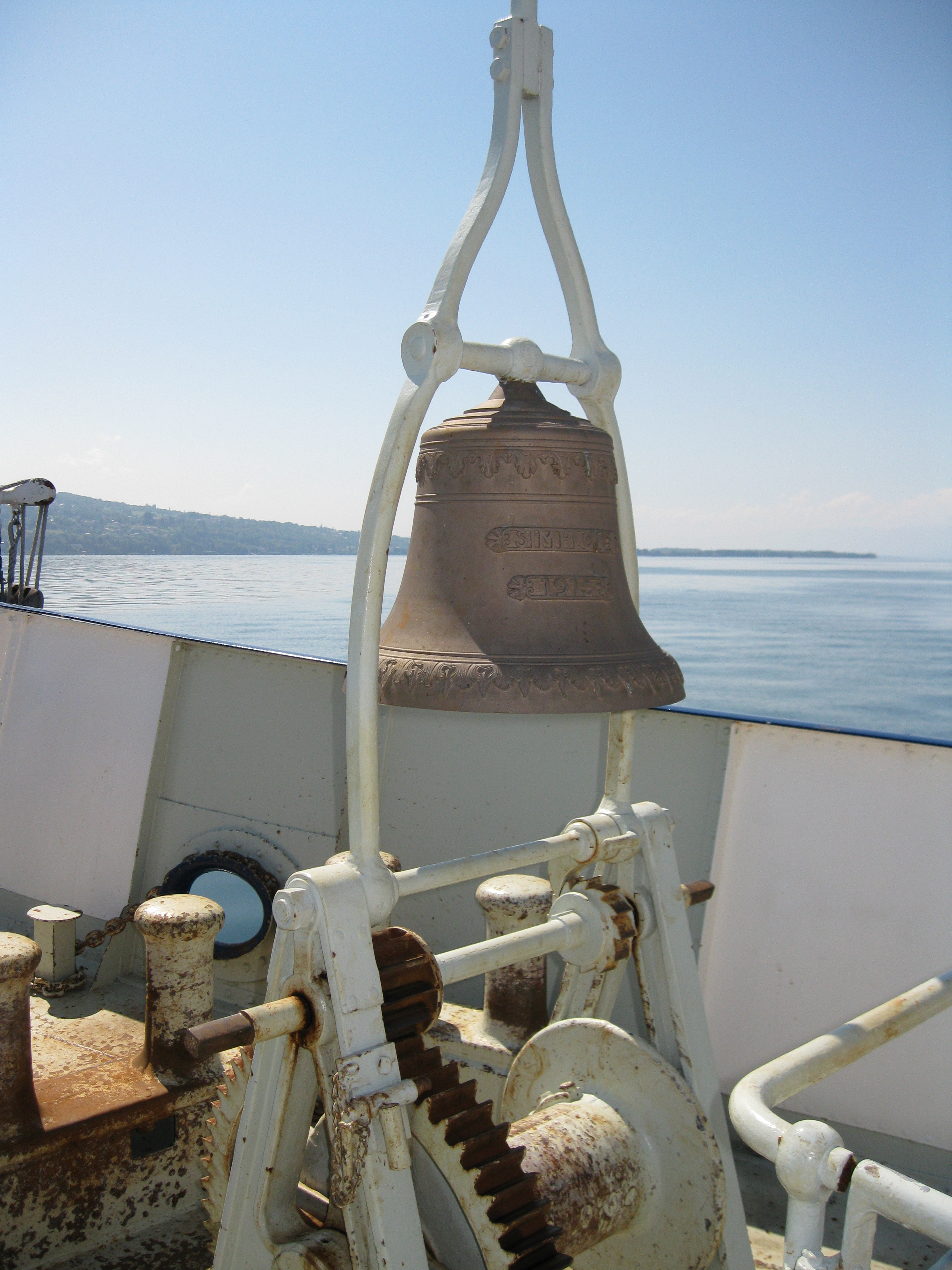 Around the lake of Geneva, Switzerland / France. Location see geotag.